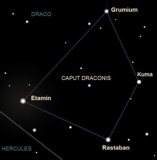 The Lozenge at Draco constelation, also known as Caput Draconis or Dragon's head.